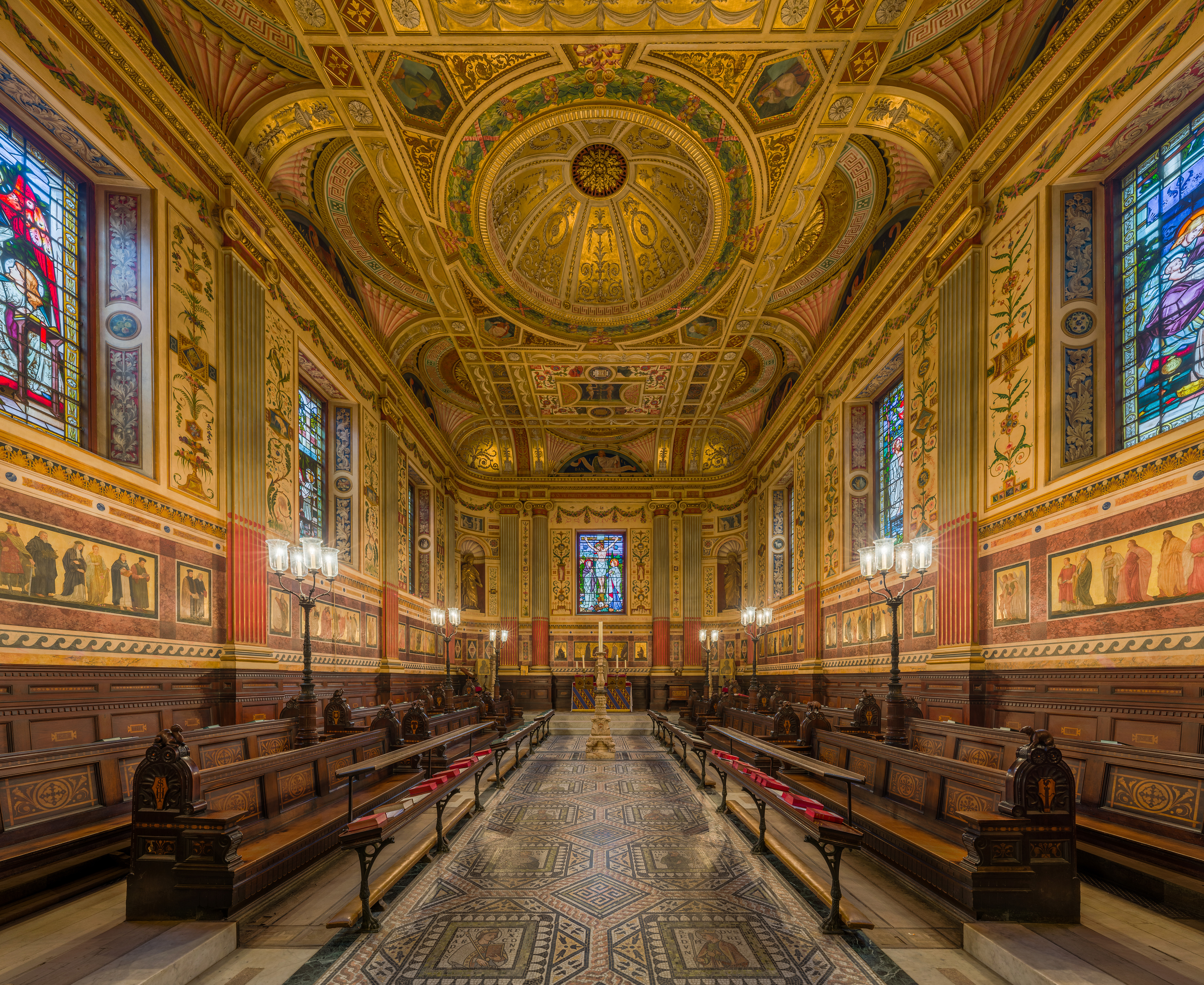 The interior of the chapel of Worcester College, Oxford, England.